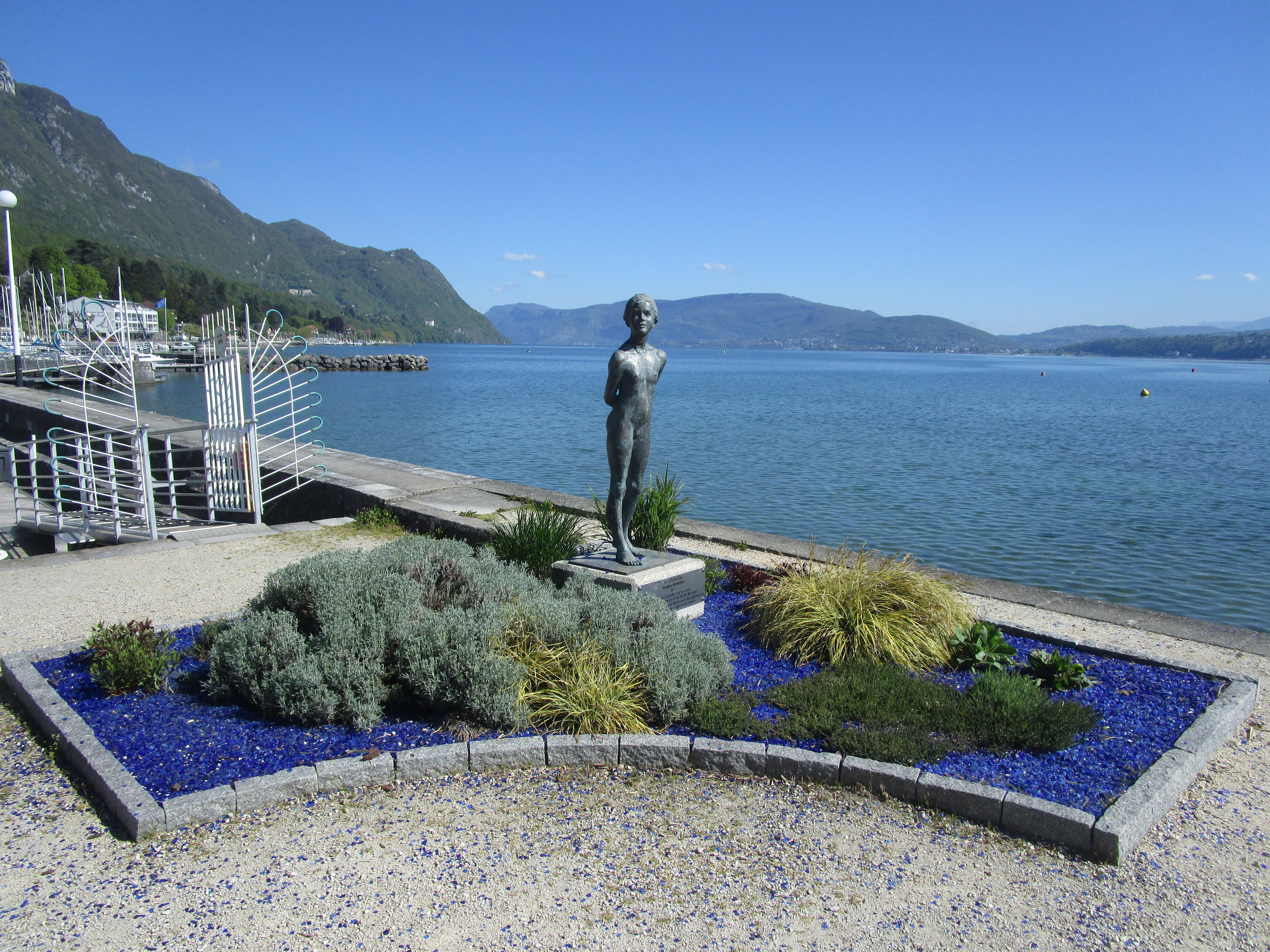 The monument « Junges Mädchen », in memory of the twinning between the Le Bourget-du-Lac and Moos, in Le Bourget-du-Lac on April 29, 2016.